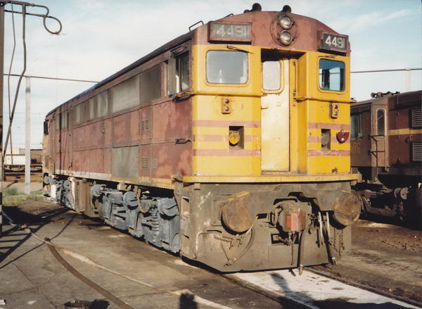 4491 in reverse livery at broadmeadow loco circa 1990